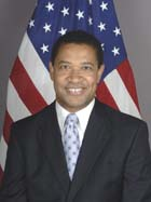 Maurice S. Parker. As of 2008, the United States Ambassador to Eswatini.